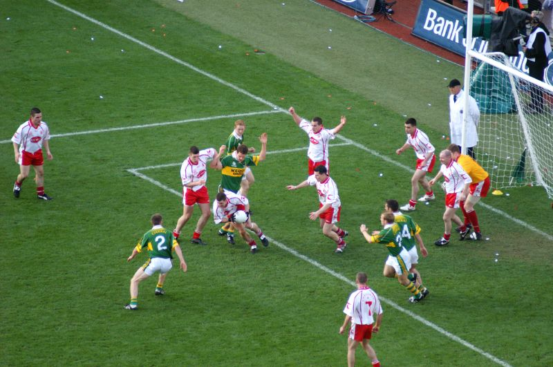 A Gaelic football match between Tyrone and Kerry, in Croke Park, Ireland.